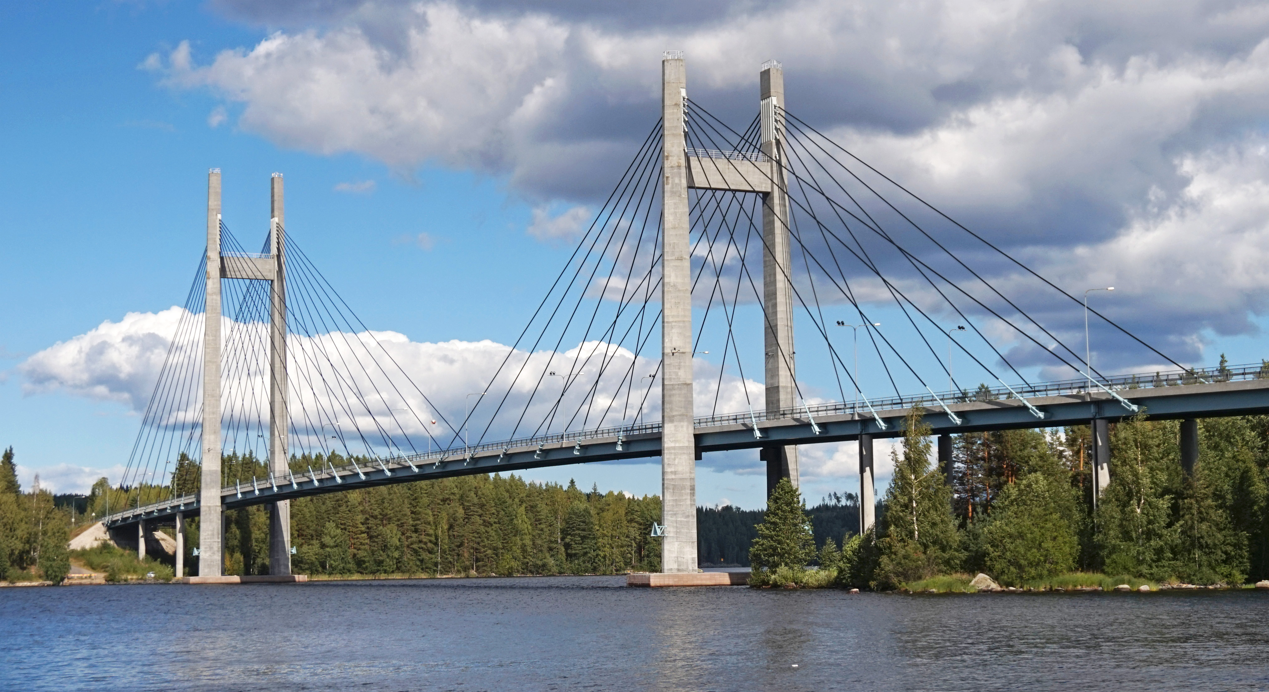 Kärkinen Bridge